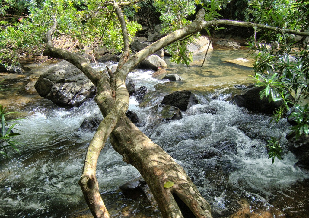 Nachchimale01